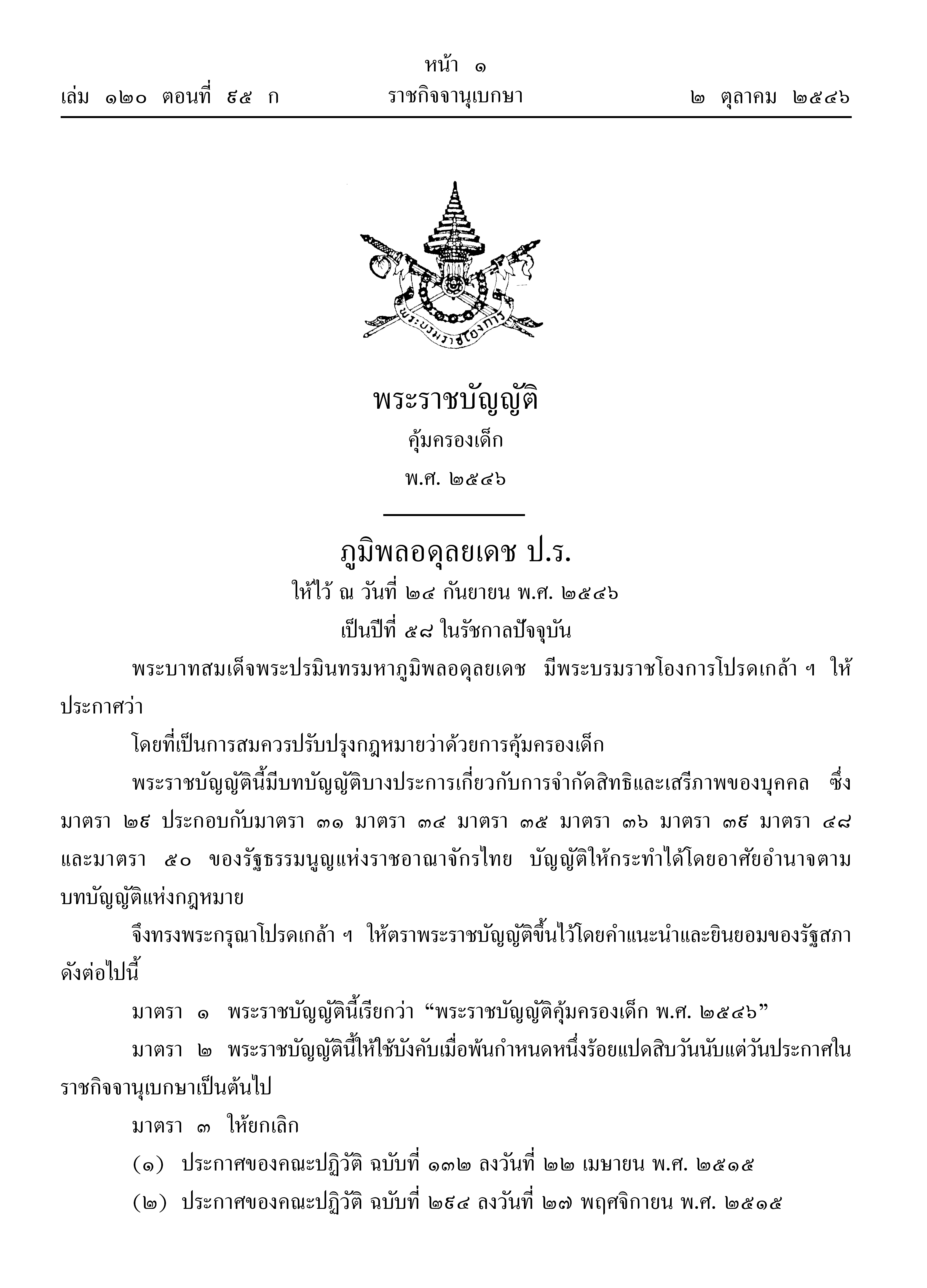 What: The Child Protection Act, BE 2546 (2003). Where: The Government Gazette of Thailand: volume 120/part 95 A/page 1/October 2, 2003.